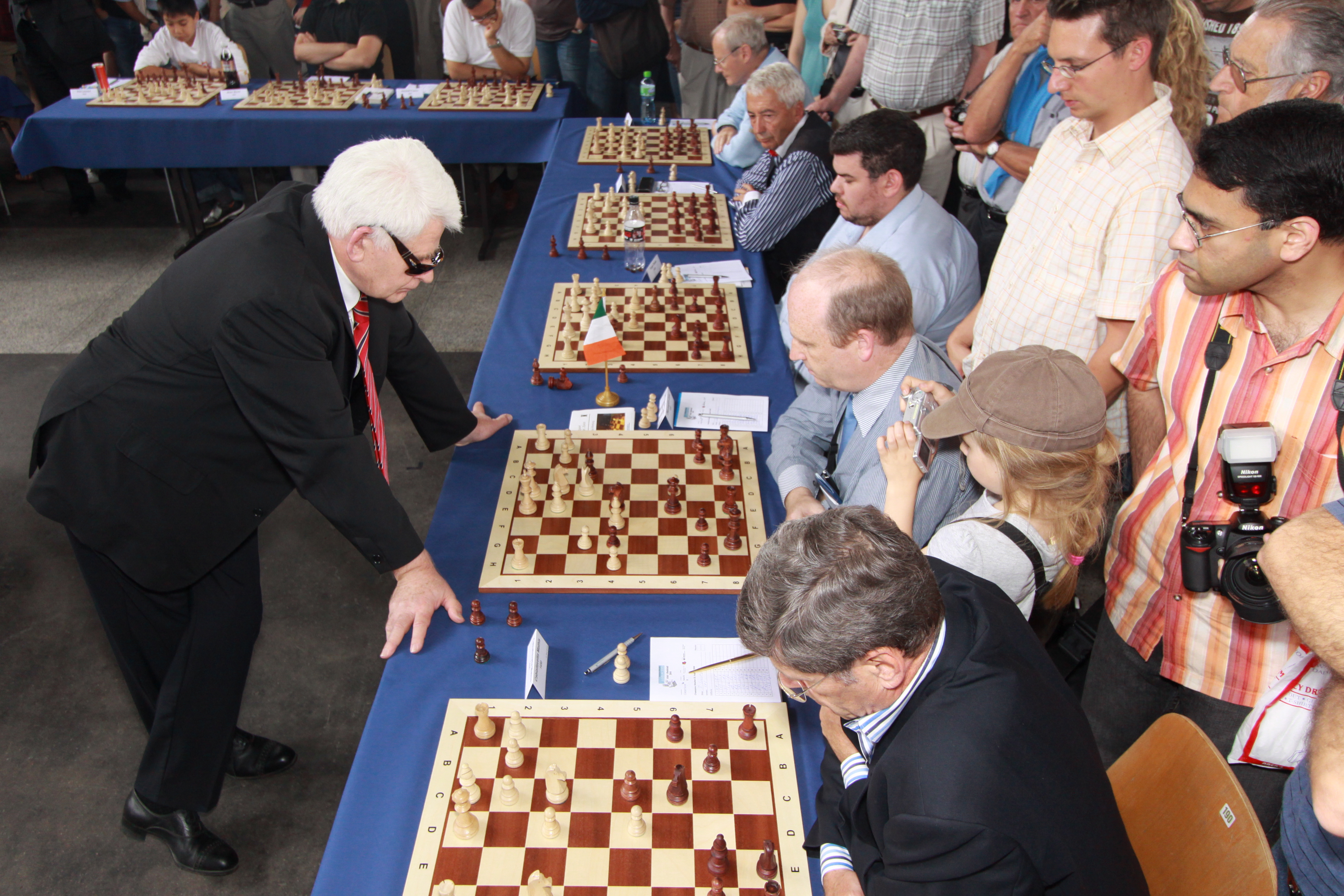 World Chess Champion Boris Spassky, France